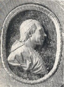 János Szily bishop of Szombathely